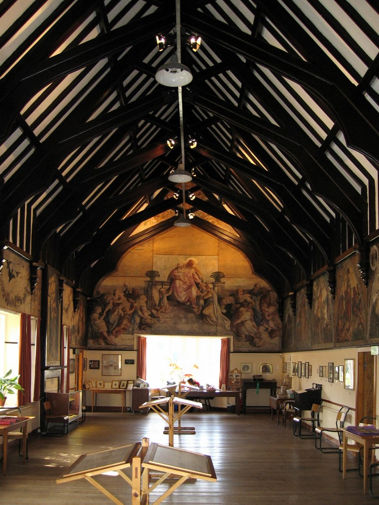 Lady Waterford Gallery, Ford The photograph shows some of the Lady Waterford murals painted inside the hall.